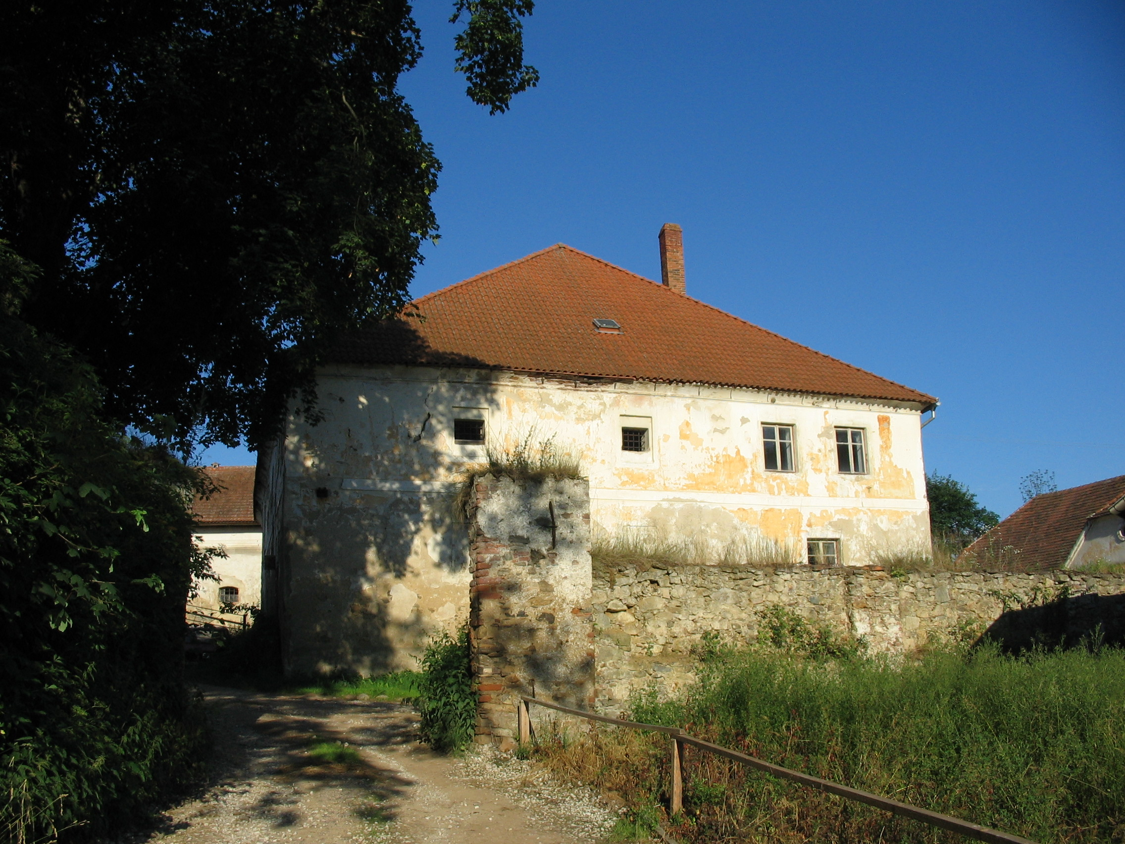 Stronghold in Ohrazenice, Strakonice District, Czech Republic